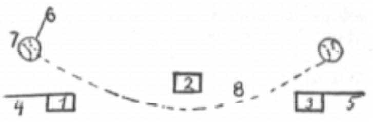 Diagram from p. 403 of O. P. Caylor's article, "The Theory and Introduction of Curve Pitching" published in Outing Magazine in 1891